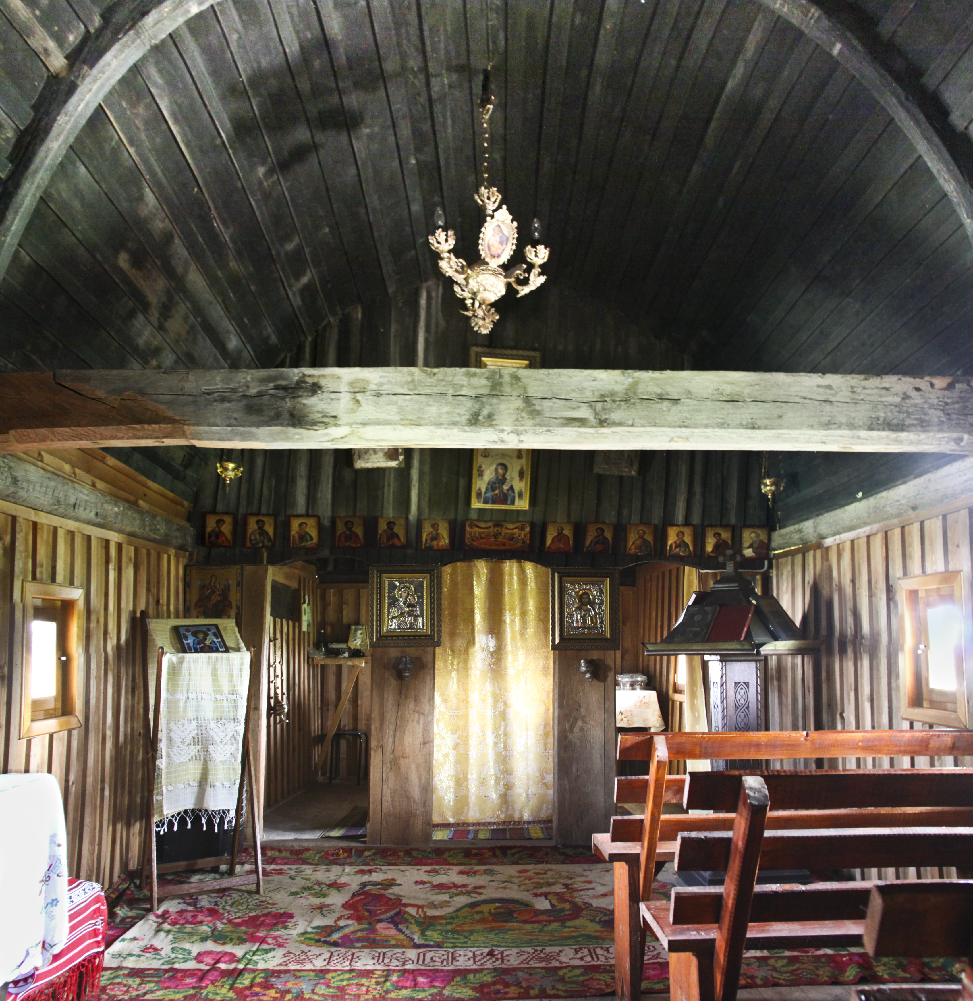 Bujoreni, Teleorman county, Romania: the wooden church.